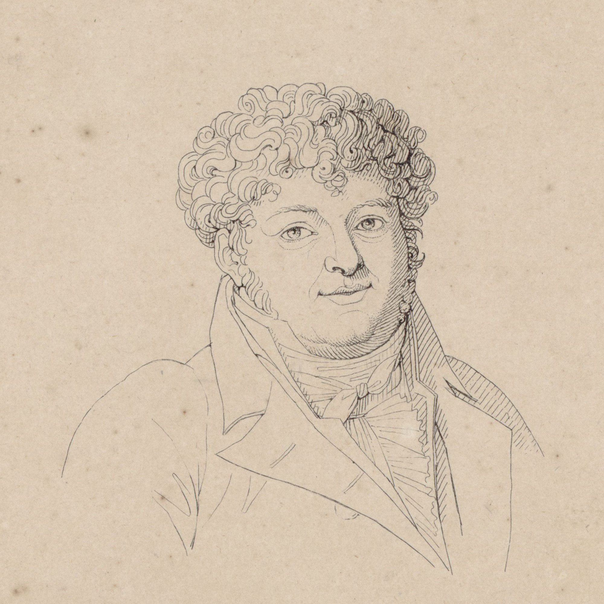 Depicted person: François Joseph Naderman